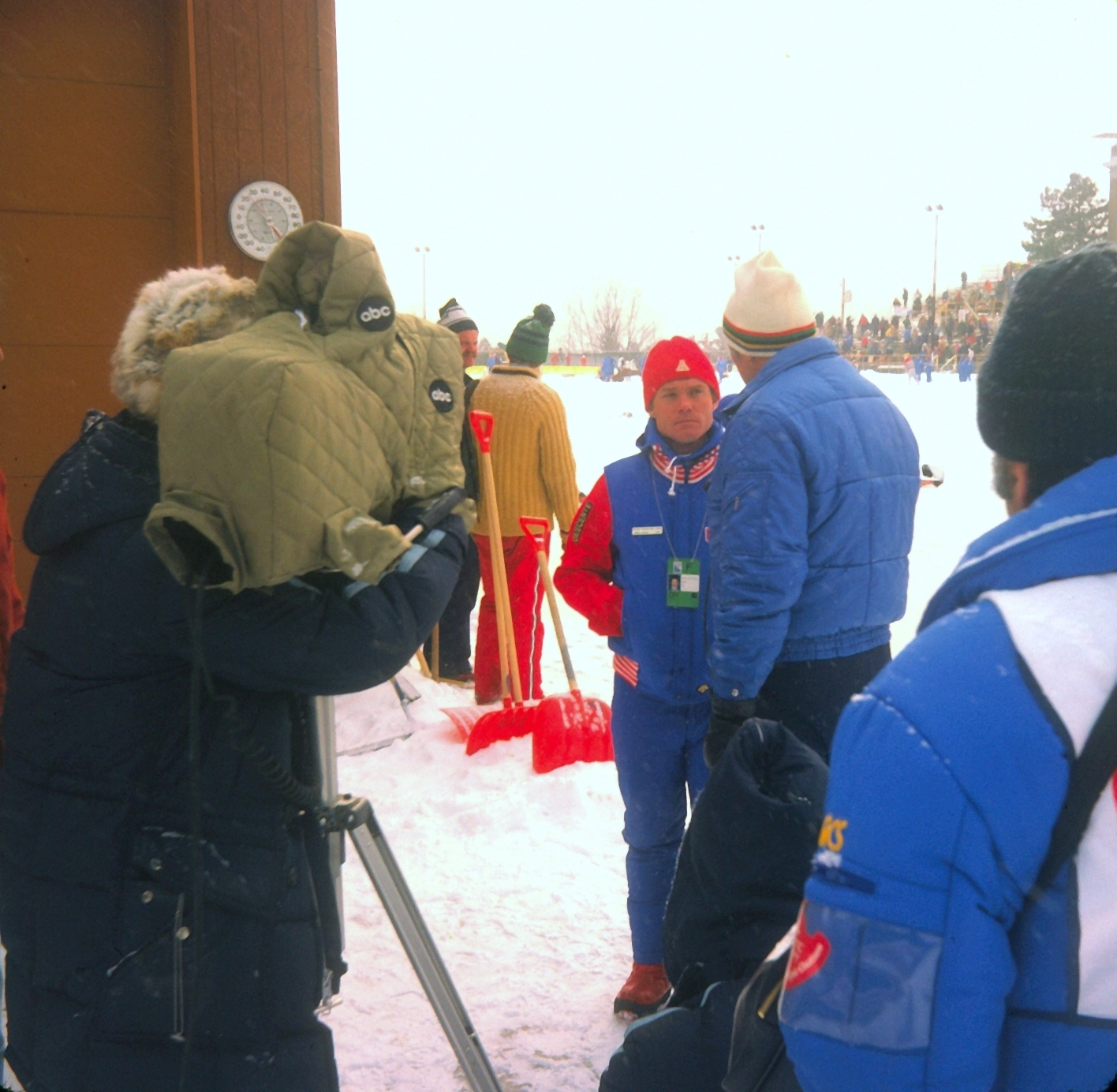 A camera team during the 1980 Winter_Olympics.